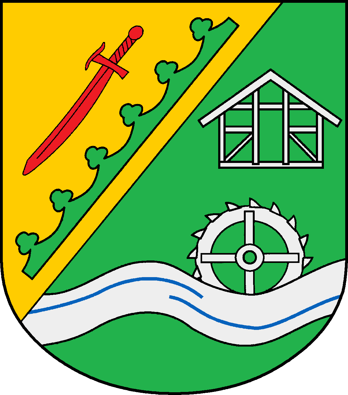 Coat of arms of the municipality Groß Boden in Schleswig-Holstein, Germany.